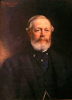 Gustave Samuel James de Rothschild; 1829-1911. Portrait. Oil on canvas. Private collection.